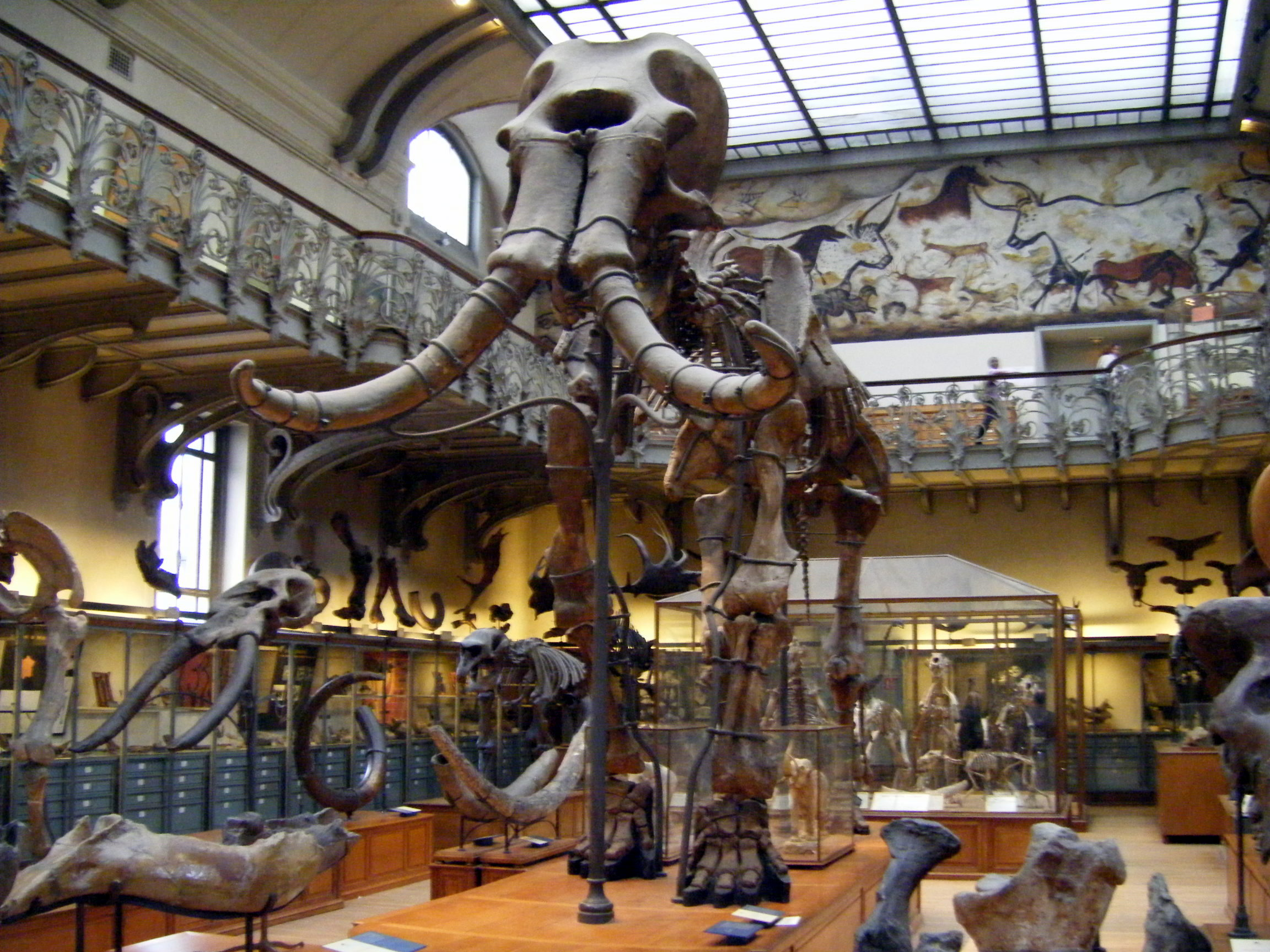 This specimen of southern mammoth (Mammuthus meridionalis) is on exhibit since 1898 at the Galerie de paléontologie et d'anatomie comparée in the French National Museum of Natural History, in Paris. Before that it was on exhibit, since the mid 1870s unil 1898, at the former galeries d'Anatomie comparée ('Comparative Anatomy Galleries'), whose building is nowadays known as le bâtiment de la baleine ('the Whale Building'). The mammoth was found in 1869 in the town of Durfort and is constituted by fully fossilised bone in rock. The town of Durfort is situated in the department of Gard, south of France, and is in the present day officially named Durfort-et-Saint-Martin-de-Sossenac.